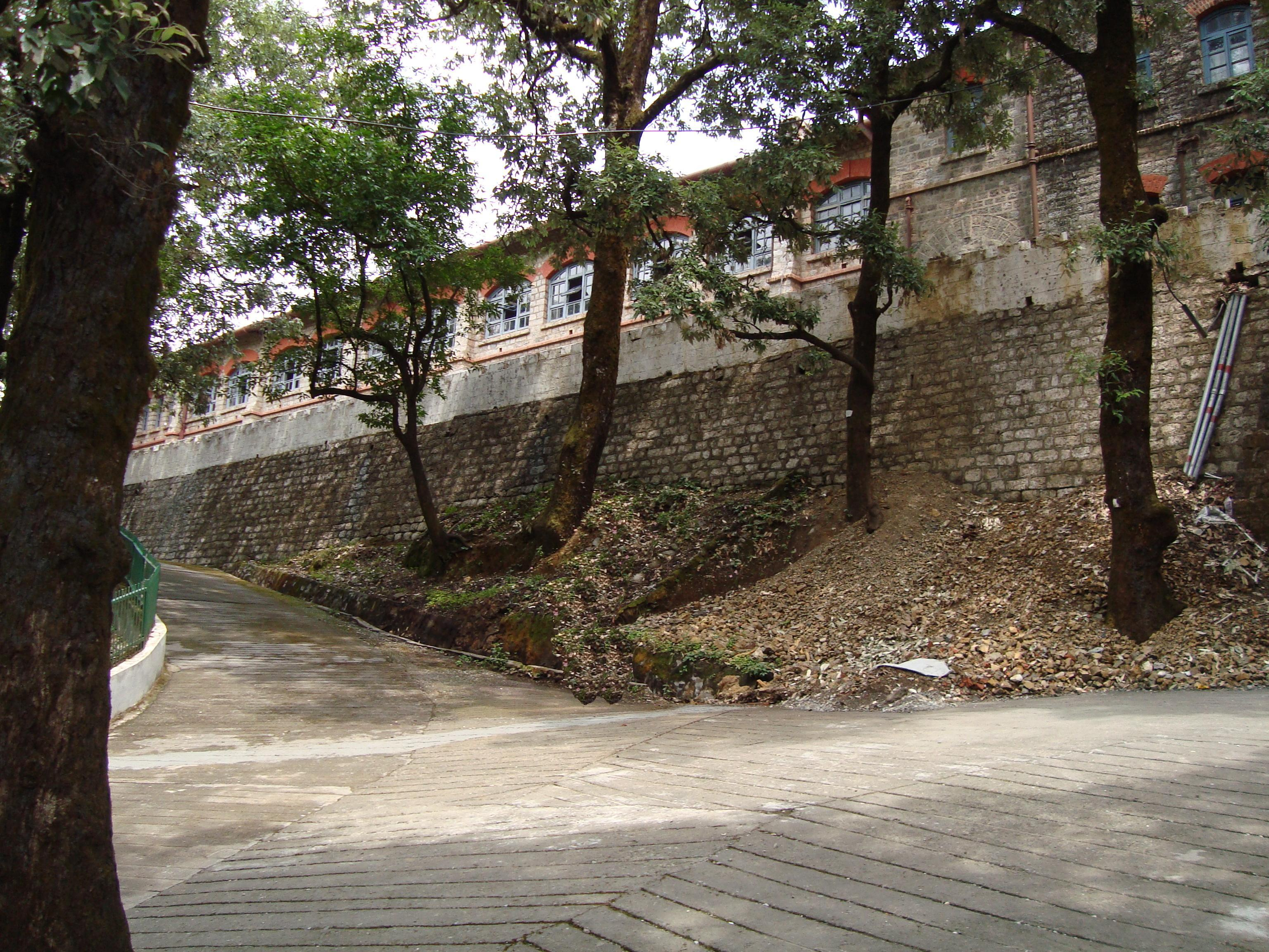 j s building